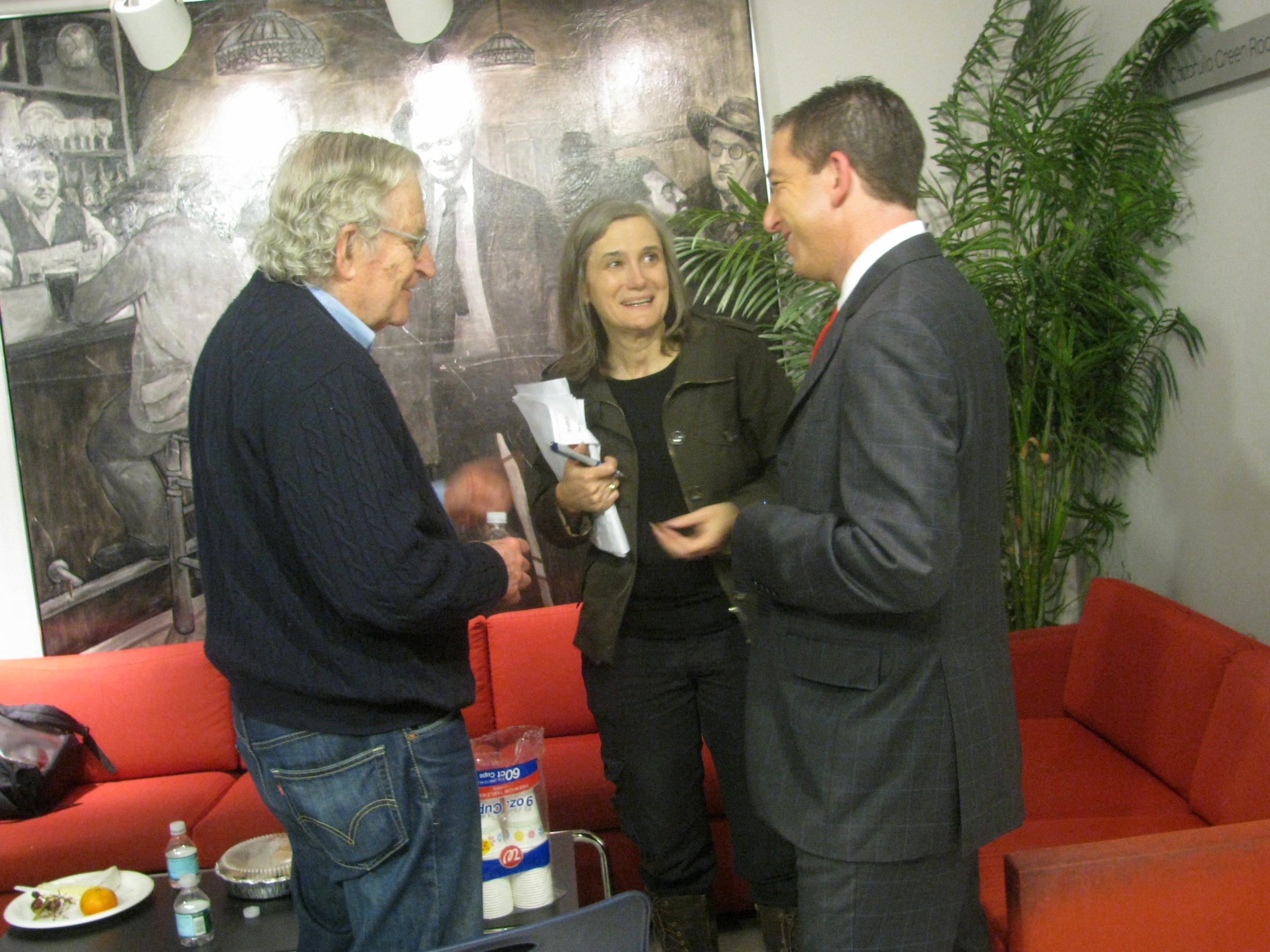 I believe that this was the first time that Noam Chomsky and Glenn Greenwald had met--backstage at FAIR's 25th anniversary celebration at Symphony Space.